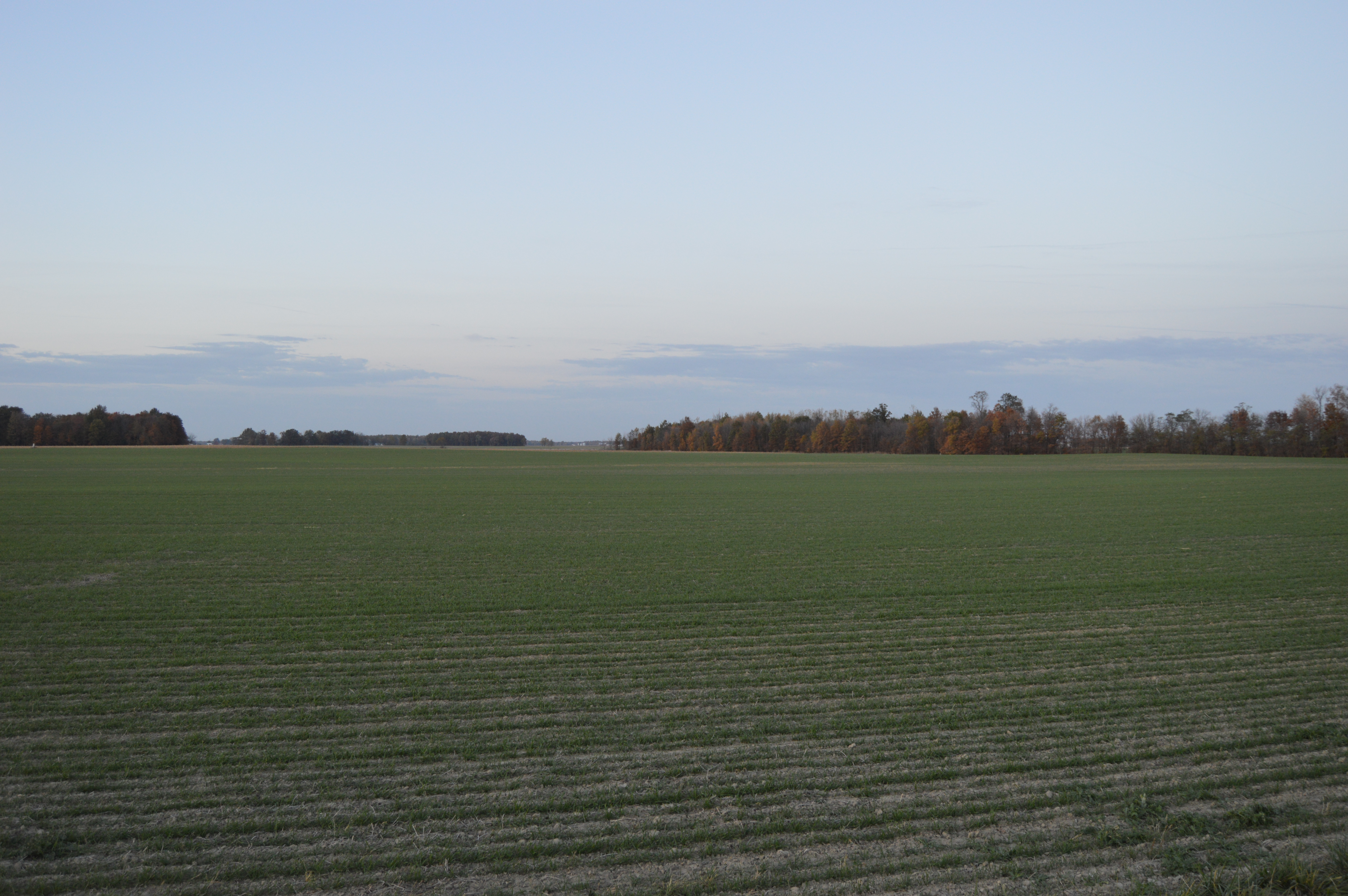 Looking southwest from State Route 103 just east of the State Route 19 junction in Lykens Township, Crawford County, Ohio, United States. In the foreground is a field of winter wheat, which has just sprouted.